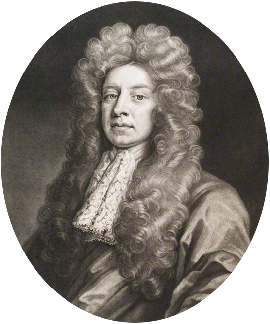 Picture of Sir Robert Southwell. Born in Kinsale in Co. Cork